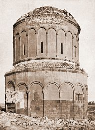 The Church of the Holy Redeemer (Surb Amenaprkich) in Ani, today occupied by the Republic of Turkey